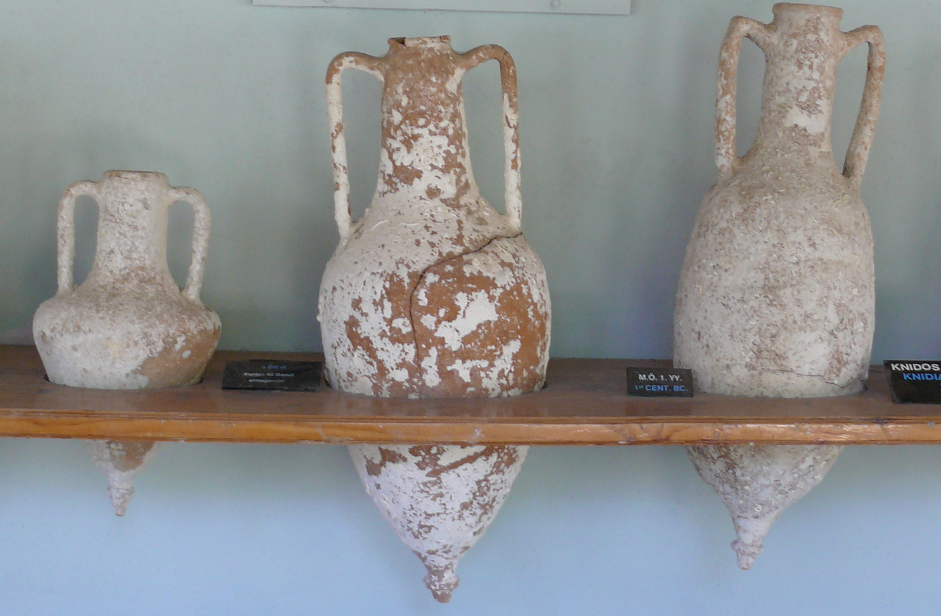 Knidean amphorae kept at Bodrum Castle (Turkey). Knidos (Greek: Κνίδος; now Tekir in Turkey) was an ancient Greek city in Anatolia. Along with Halikarnassos (present day Bodrum, Turkey) and Kos, and the Rhodian cities of Lindos, Kamiros and Ialyssos it formed the Dorian Hexapolis.